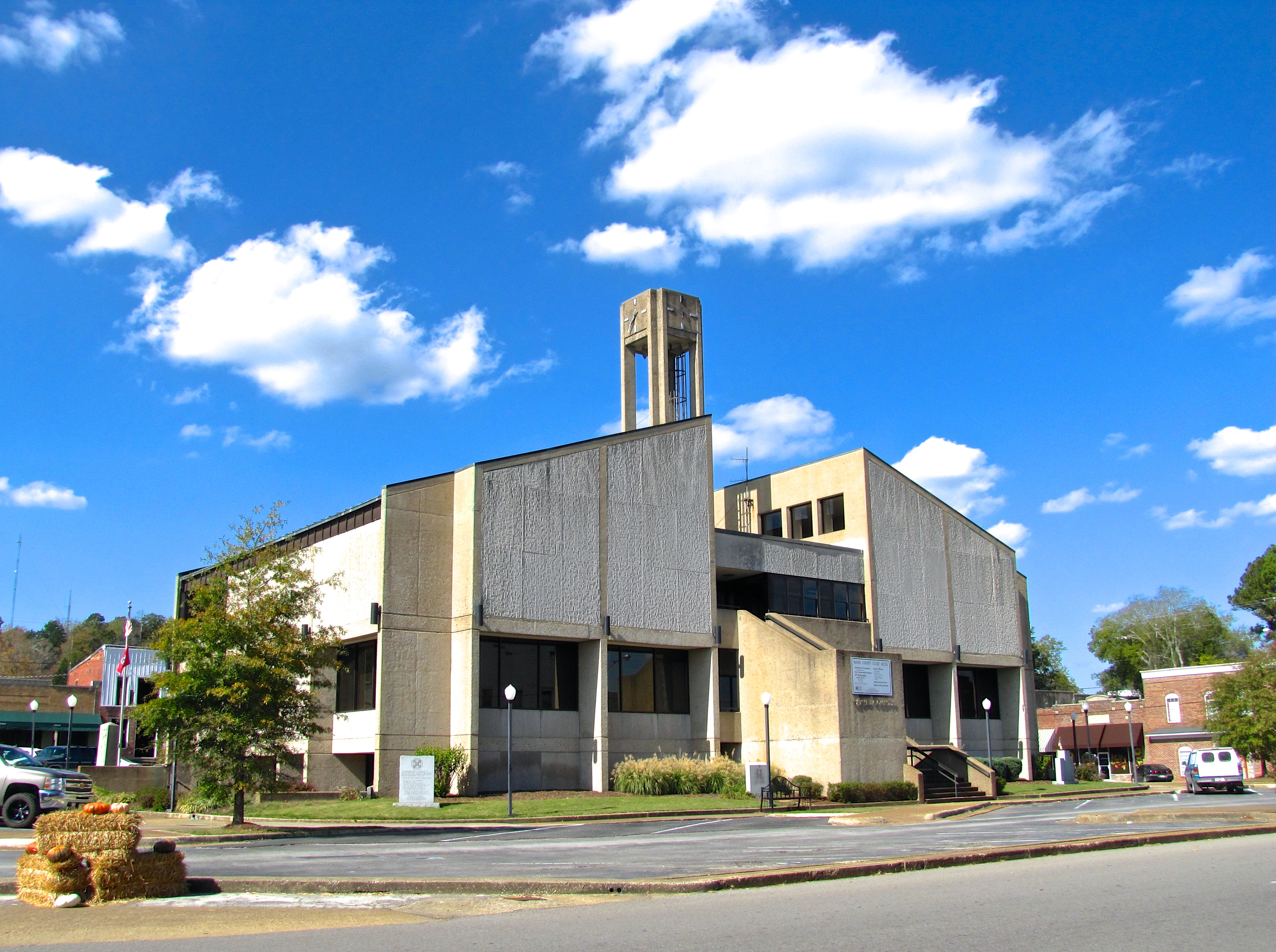 Wayne County Courthouse in Waynesboro, Tennessee, United States, viewed from the southeast.